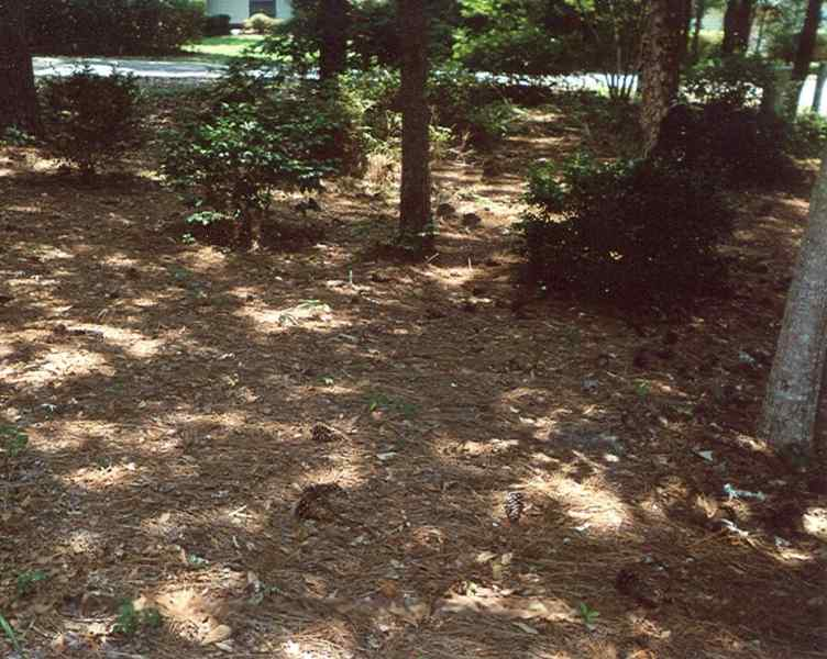 Photo of forest floor with leaf litter. P Photo was taken by user. Additionally compressed to save Wikipedia space.